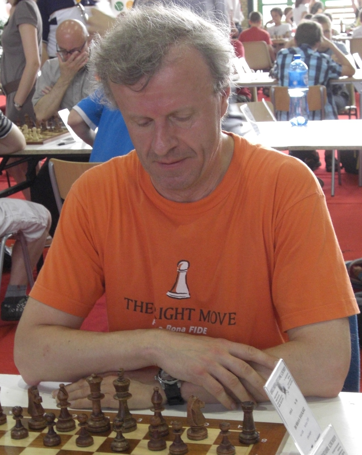 Mieczyslaw Bakalarz during Polonia Wroclaw's 5th International Chess Tournament (2010)